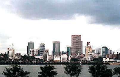 This is the Photoshop-edited version of Image:Jbskyline.jpg found in Wikipedia. Photographed from Woodlands checkpoint, probably along the car or bus lane into the Causeway. See also Image:Jbskyline.jpg.